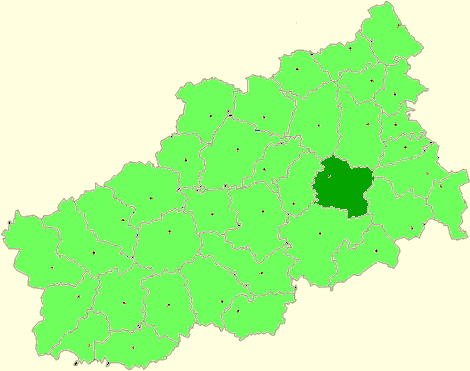 Tver Oblast map by Al Silonov